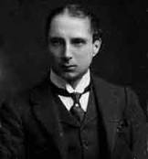 Gerald Archibald Arbuthnot